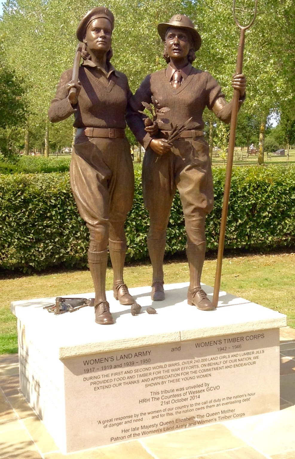 Statue to commemorate the Women's Land Army and Timber Corps at the National Memorial Arboretum, Alrewas.